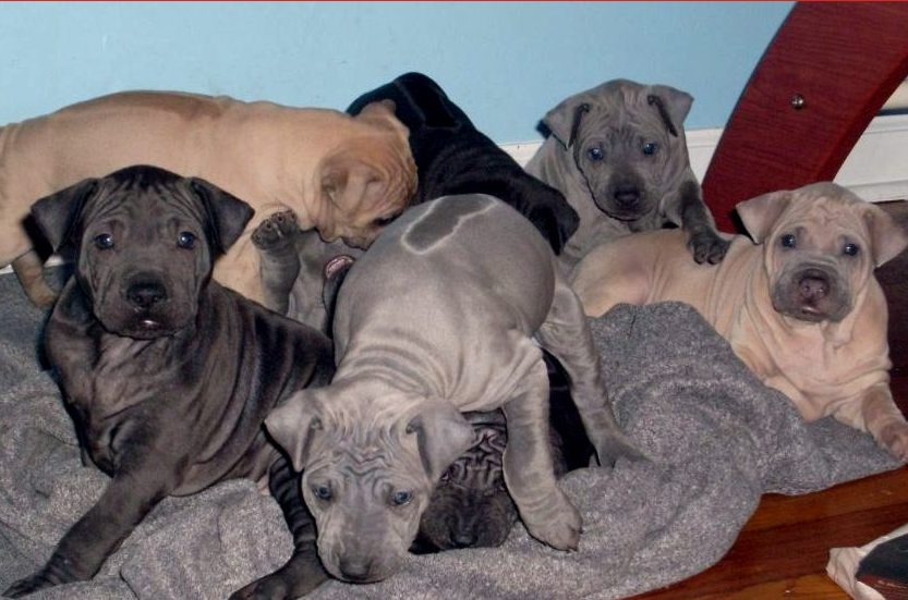 Thai Ridgeback puppies - Bred by Jake Gardner